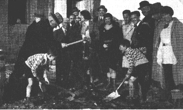 Inauguración de la Casa del Filósofo, con la presencia de Eduardo Alfonso y Mario Roso de Luna